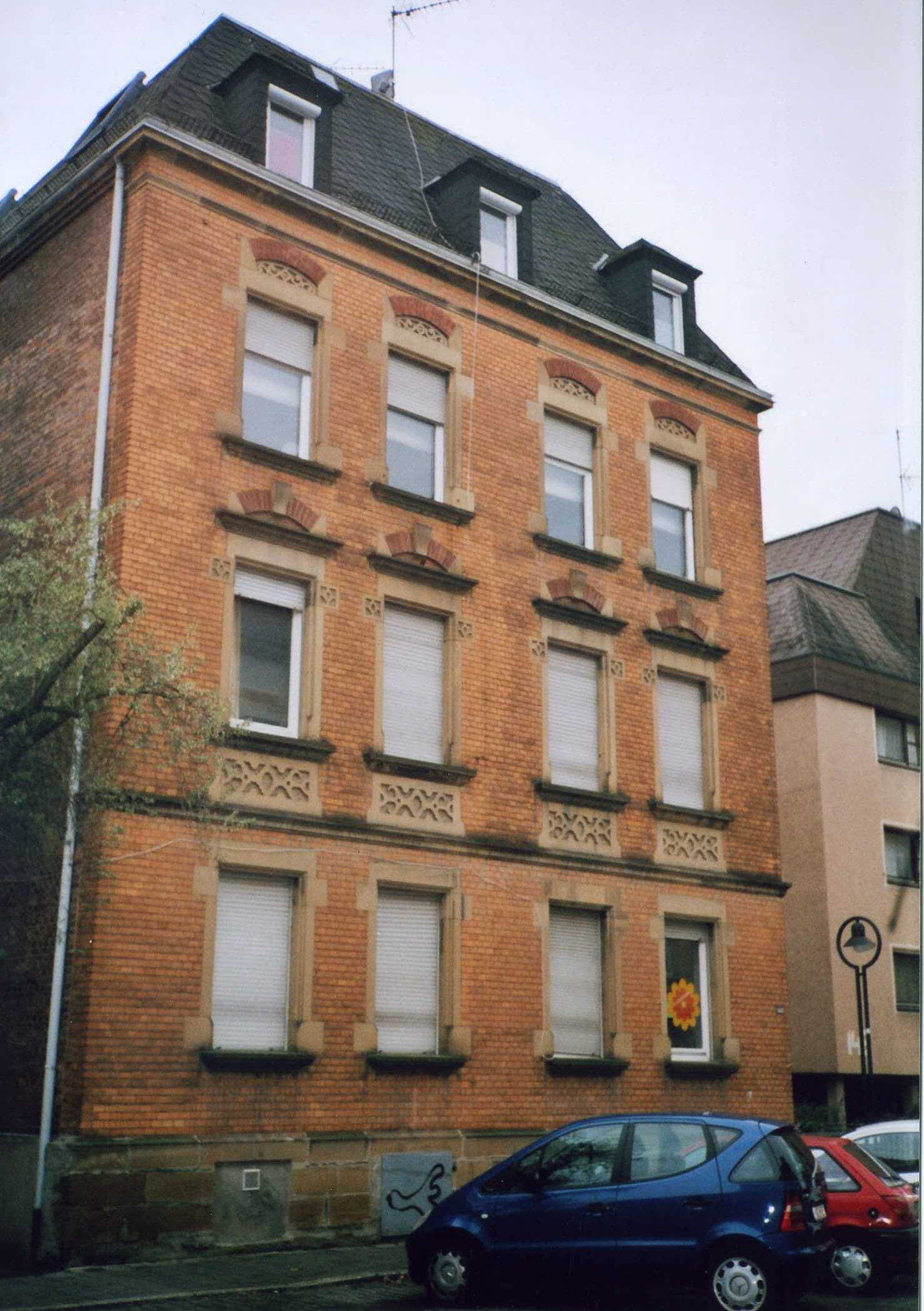 Heilbronn